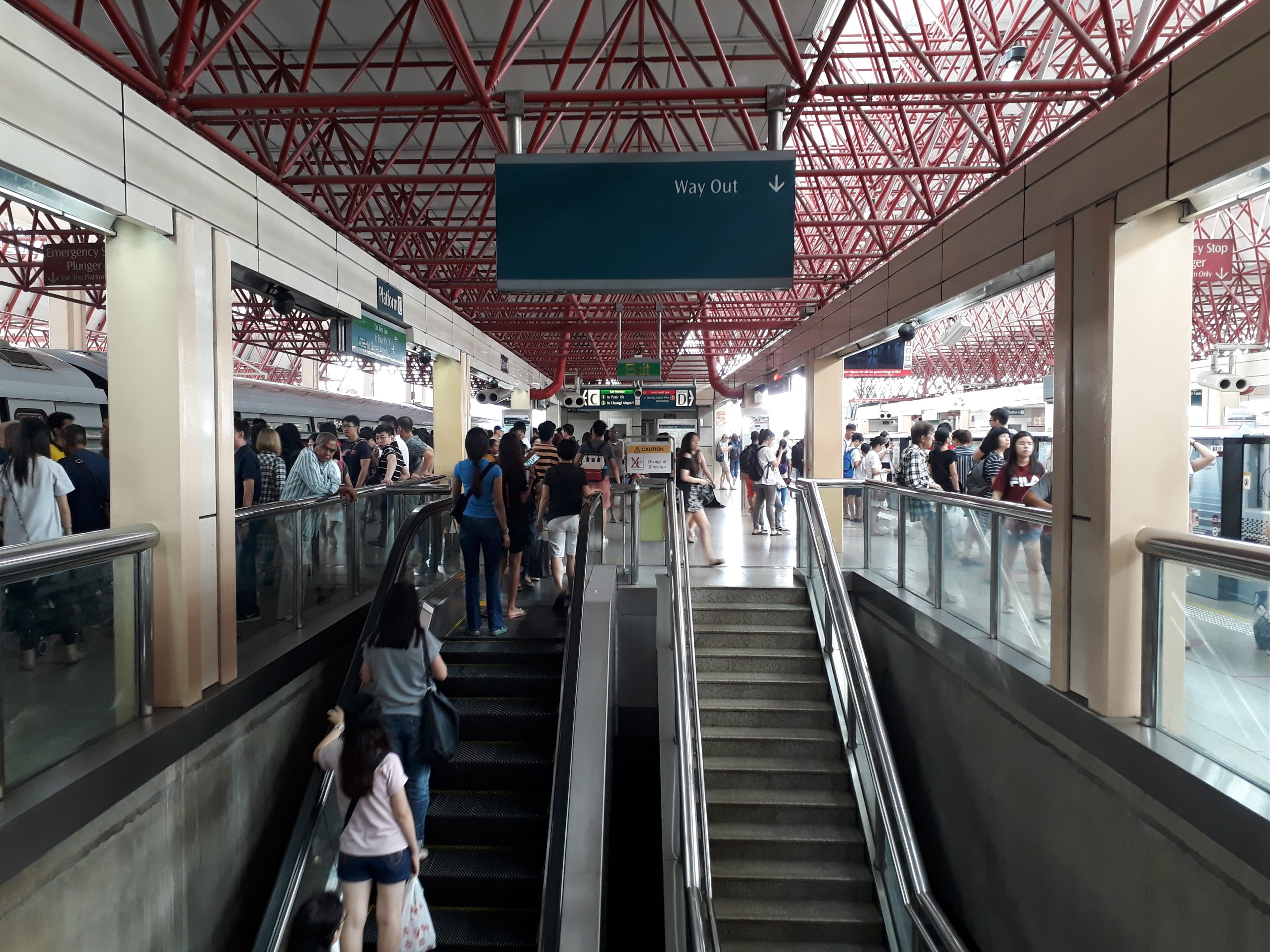 NS1 EW24 Jurong East